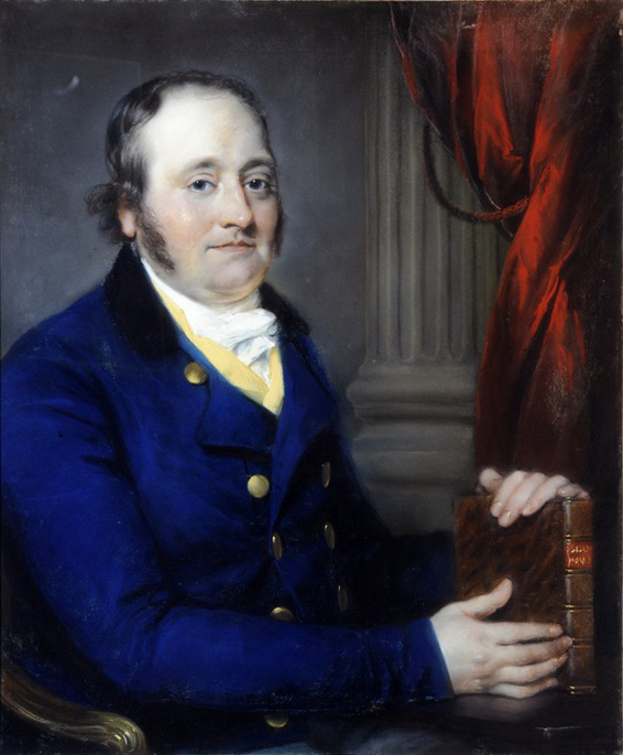 Photograph of a portrait of John Marshall, industrialist